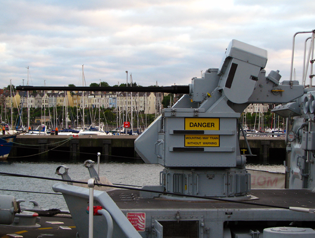 30 mm Oerlikon gun on British minehunter HMS Bangor, at Bangor, Northern Ireland.